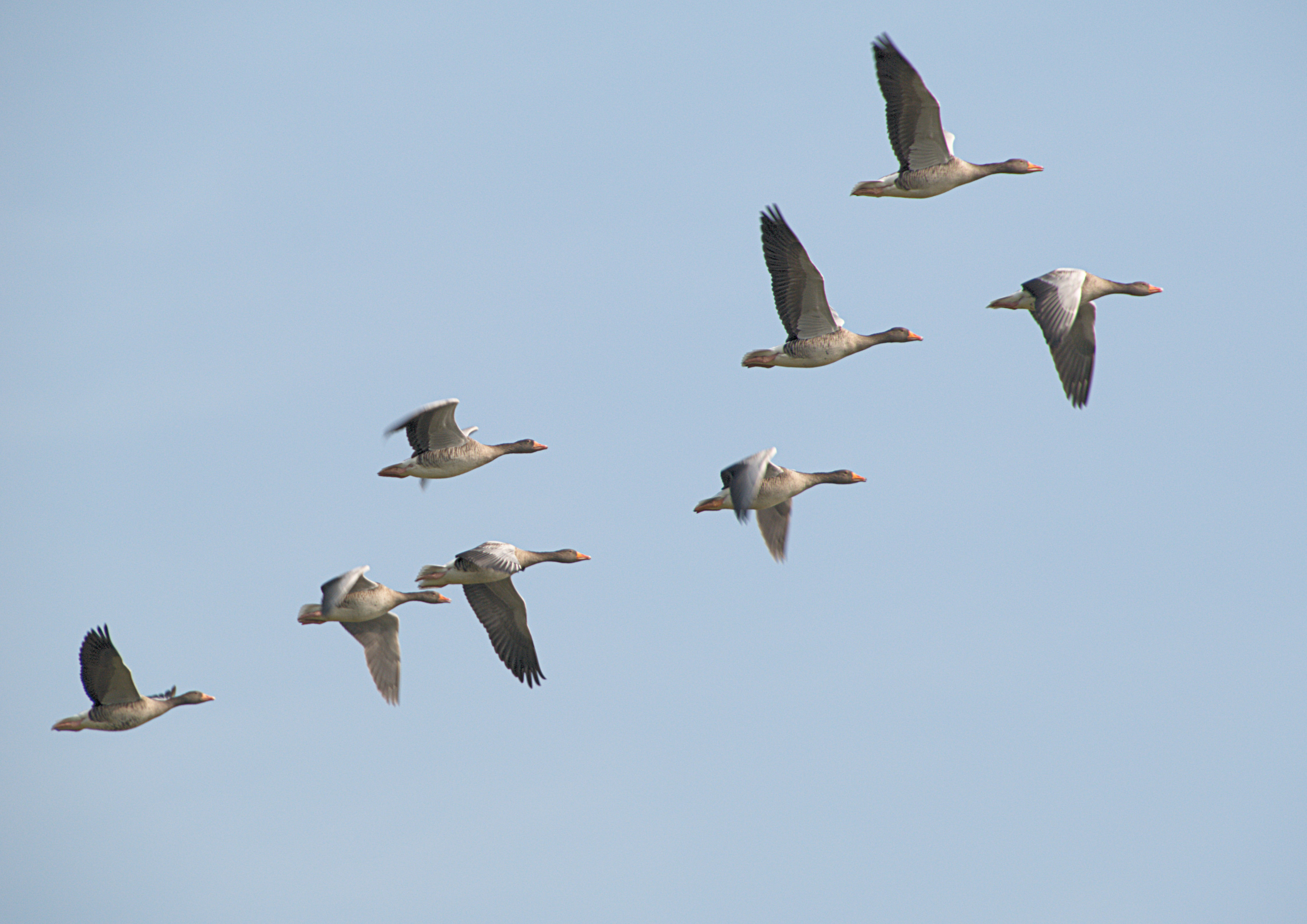 Name: Anser anser. Family: Anatidae. Location: Naturerlebnisraum Rieselfelder, Münster, NRW, Germany